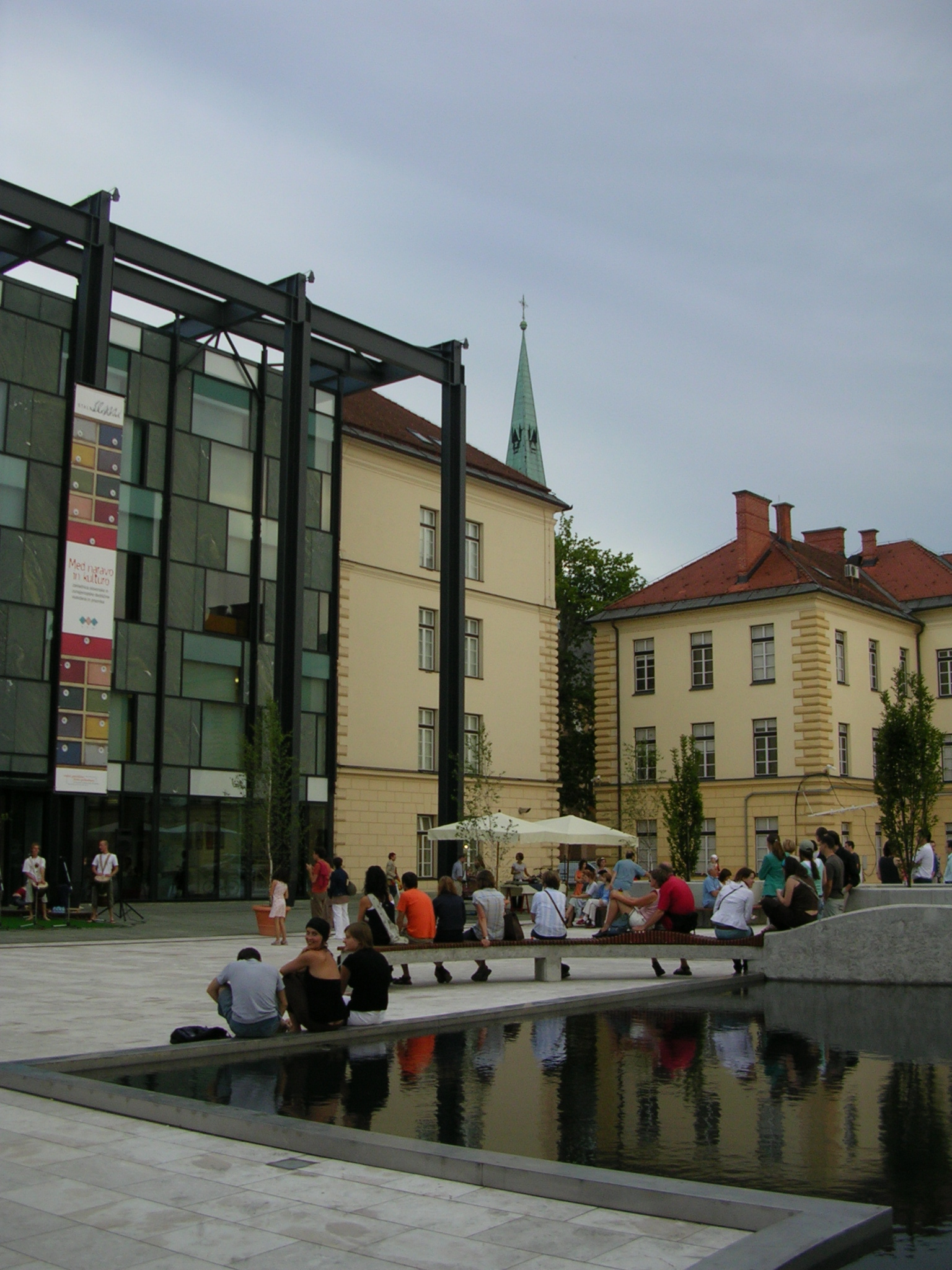 Front of Slovene Ethnographic Museum